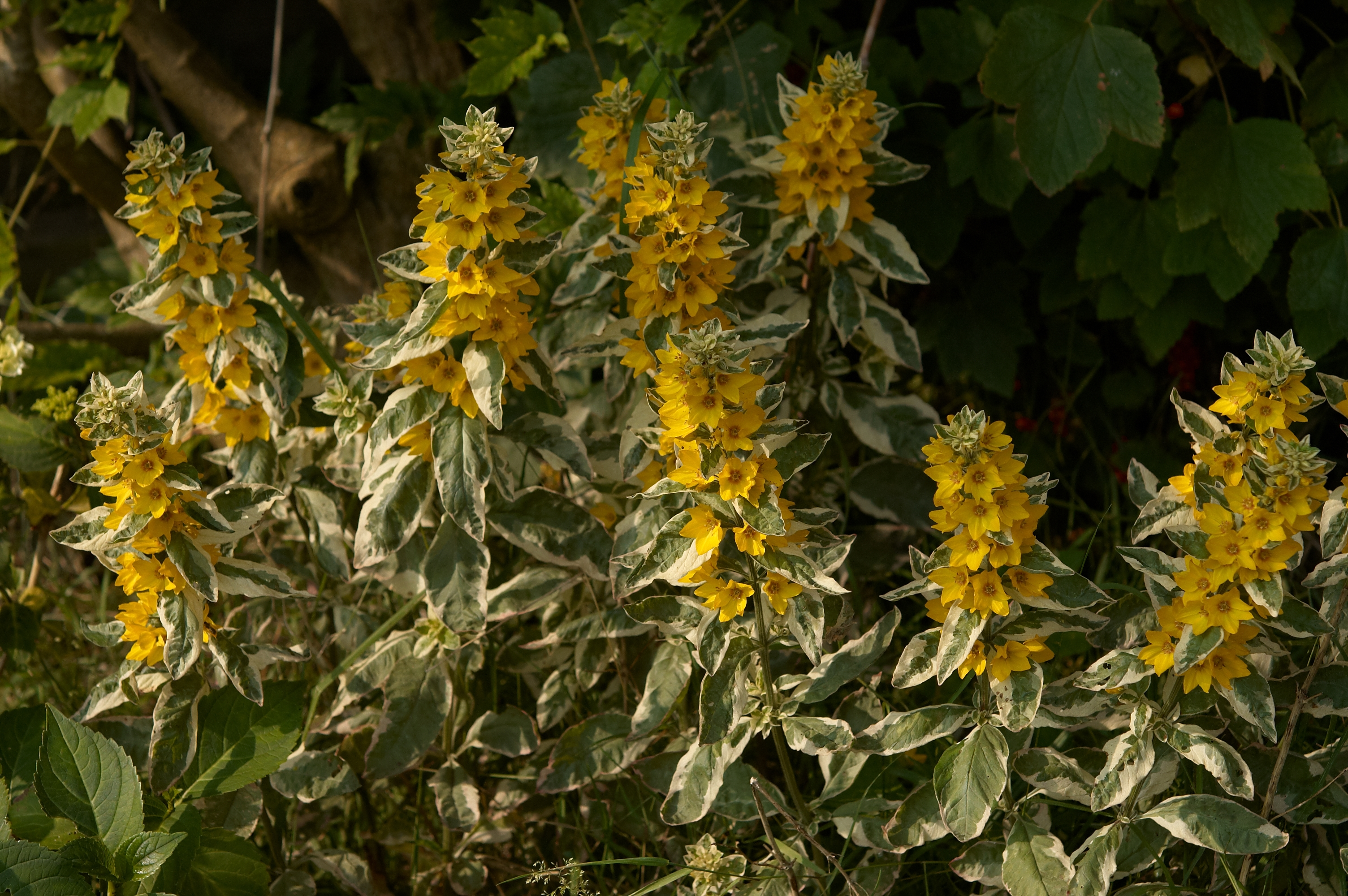 Lysimachia punctata 'Alexander'